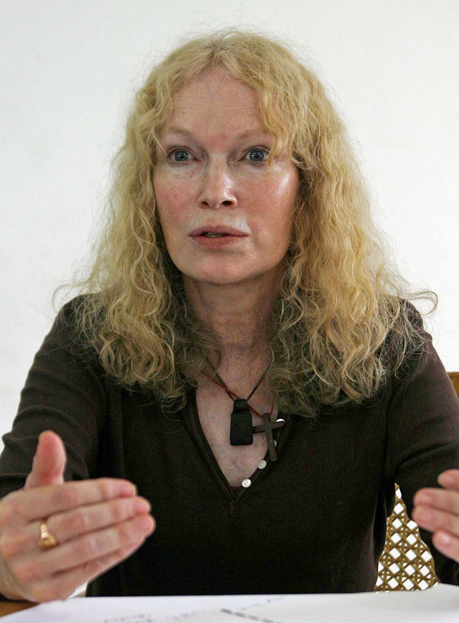 UNICEF Goodwill Ambassador, Ms Mia Farrow at press conference for local media, international correspondents and guests. Bangui, 22 May 2008. Credits: Pierre Holtz for UNICEF